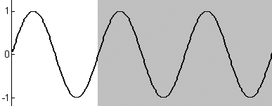 Determinist signal